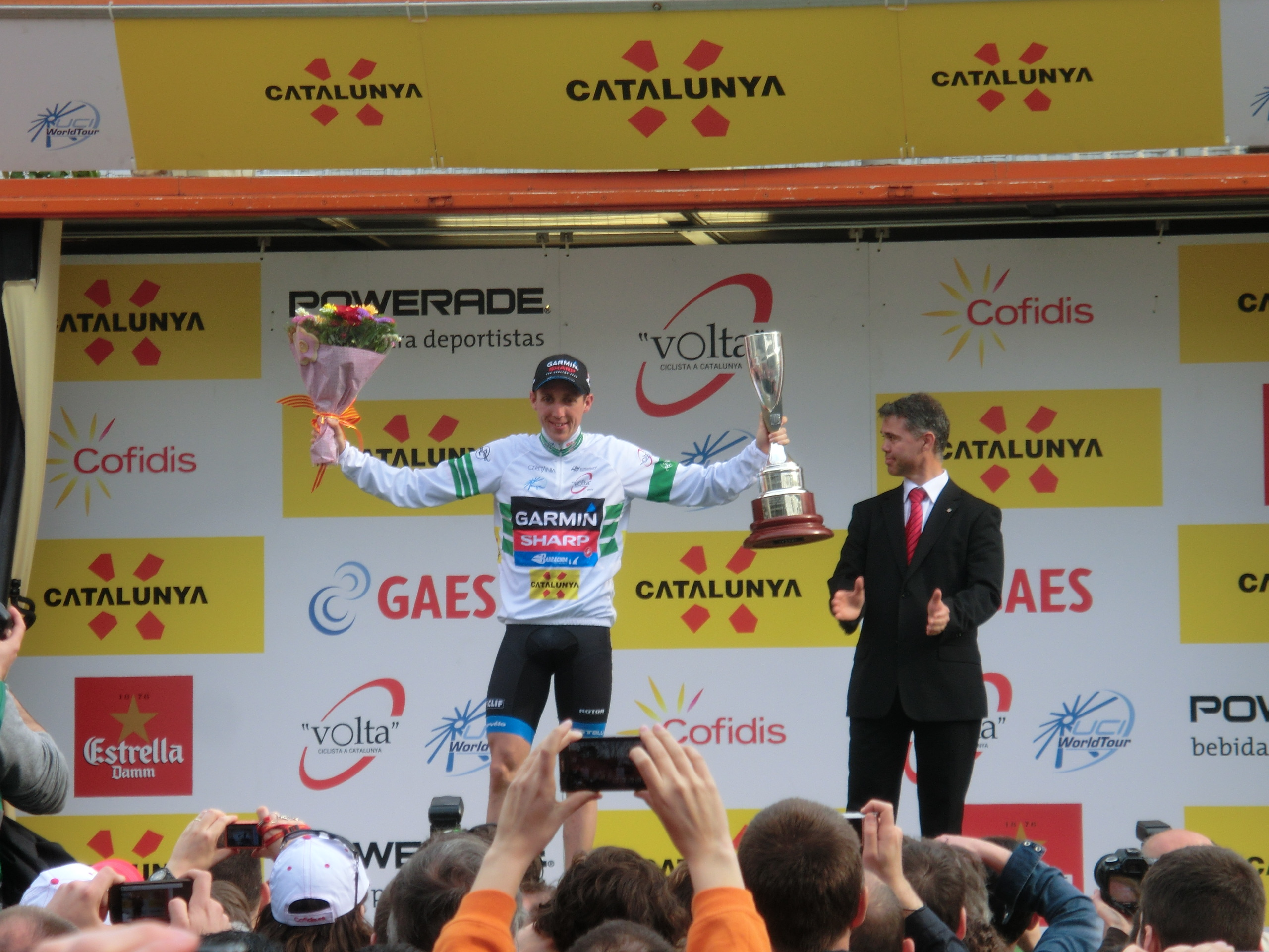 Daniel Martin in the podium as winner of 2013 Volta Catalunya.